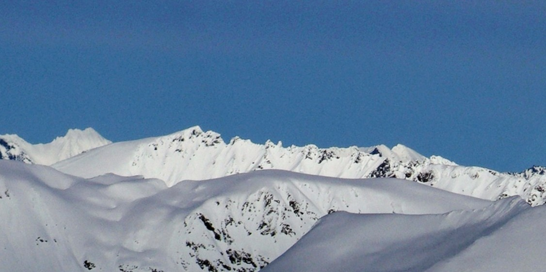 Own work. April 2005. Skårasalen (1542 m) seen from Eidskyrkja. Parts of Storetind in front.